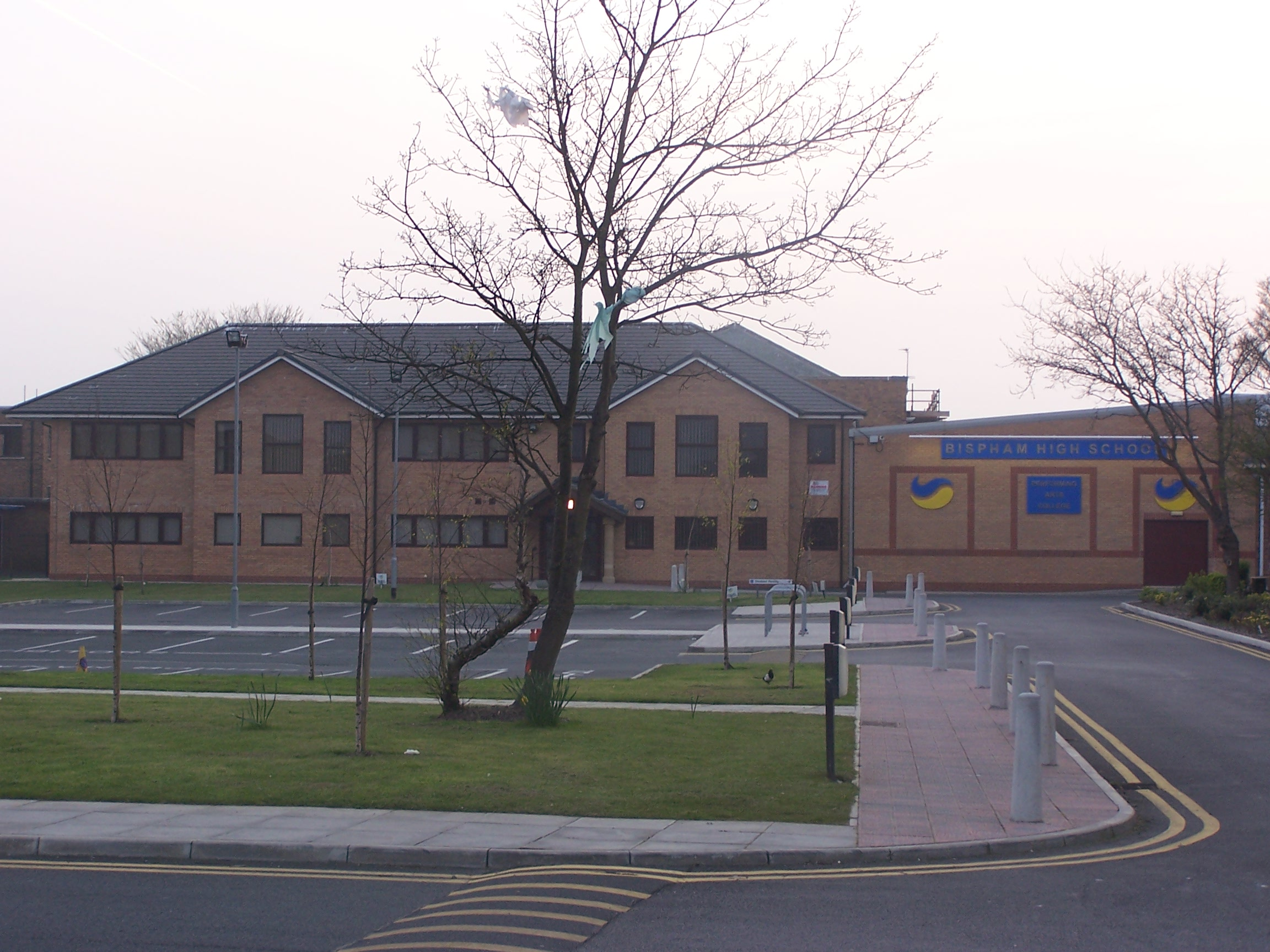 Front view of Bispham High School. Photo taken by ♦Tangerines BFC ♦·Talk 03:13, 14 April 2007 (UTC) on 13 April, 2007